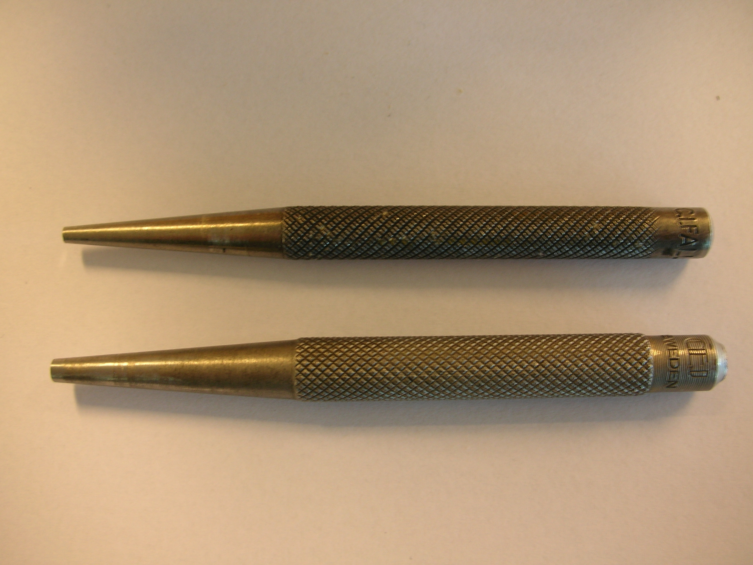 Punches